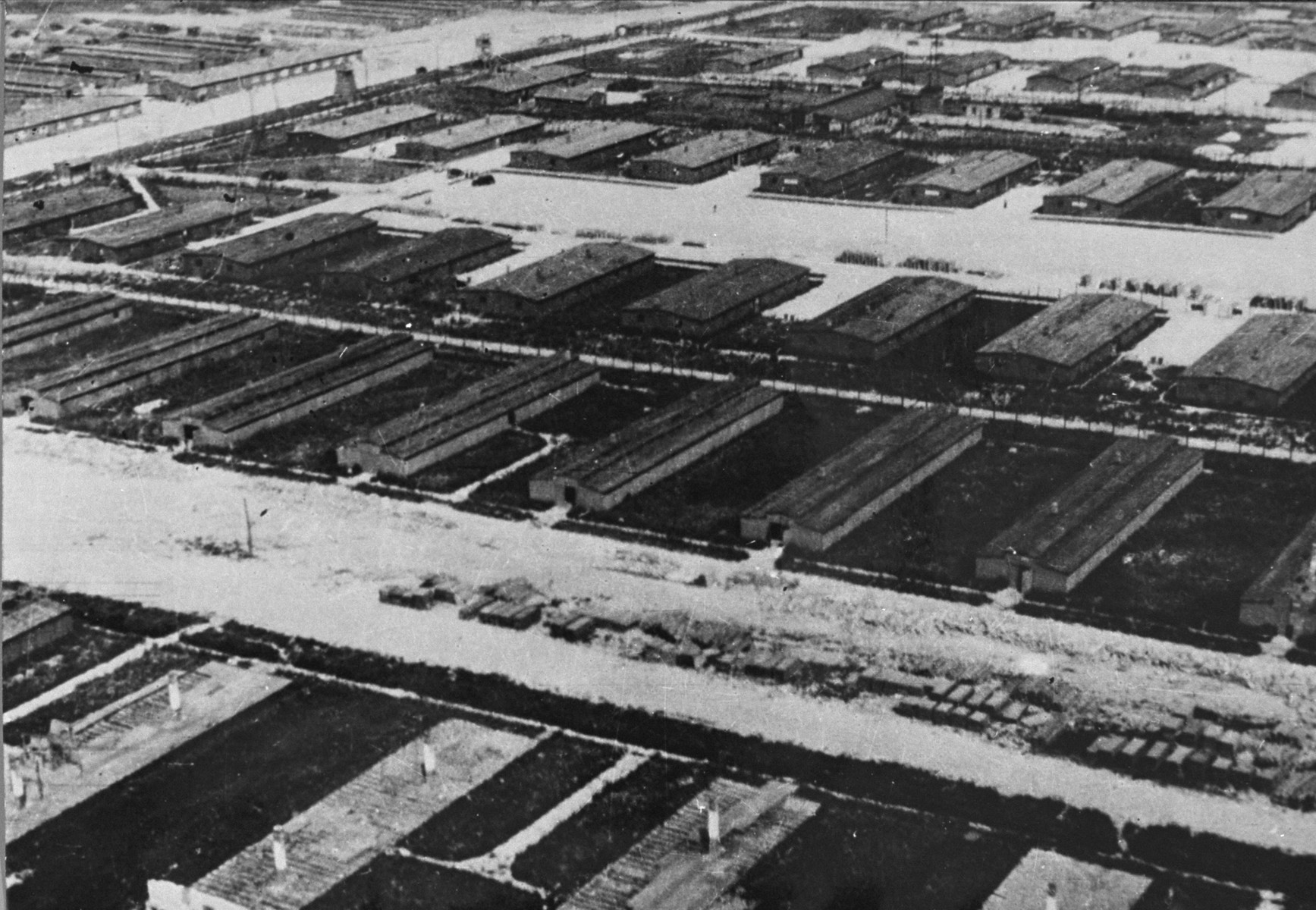 Reconnaissance photograph of the Majdanek concentration camp (June 24, 1944) from the collections of the Majdanek Museum, lower half: the barracks under deconstruction ahead of the Soviet offensive, with visible chimney stacks still standing and planks of wood piled up along the supply road; in the upper half, functioning barracks.